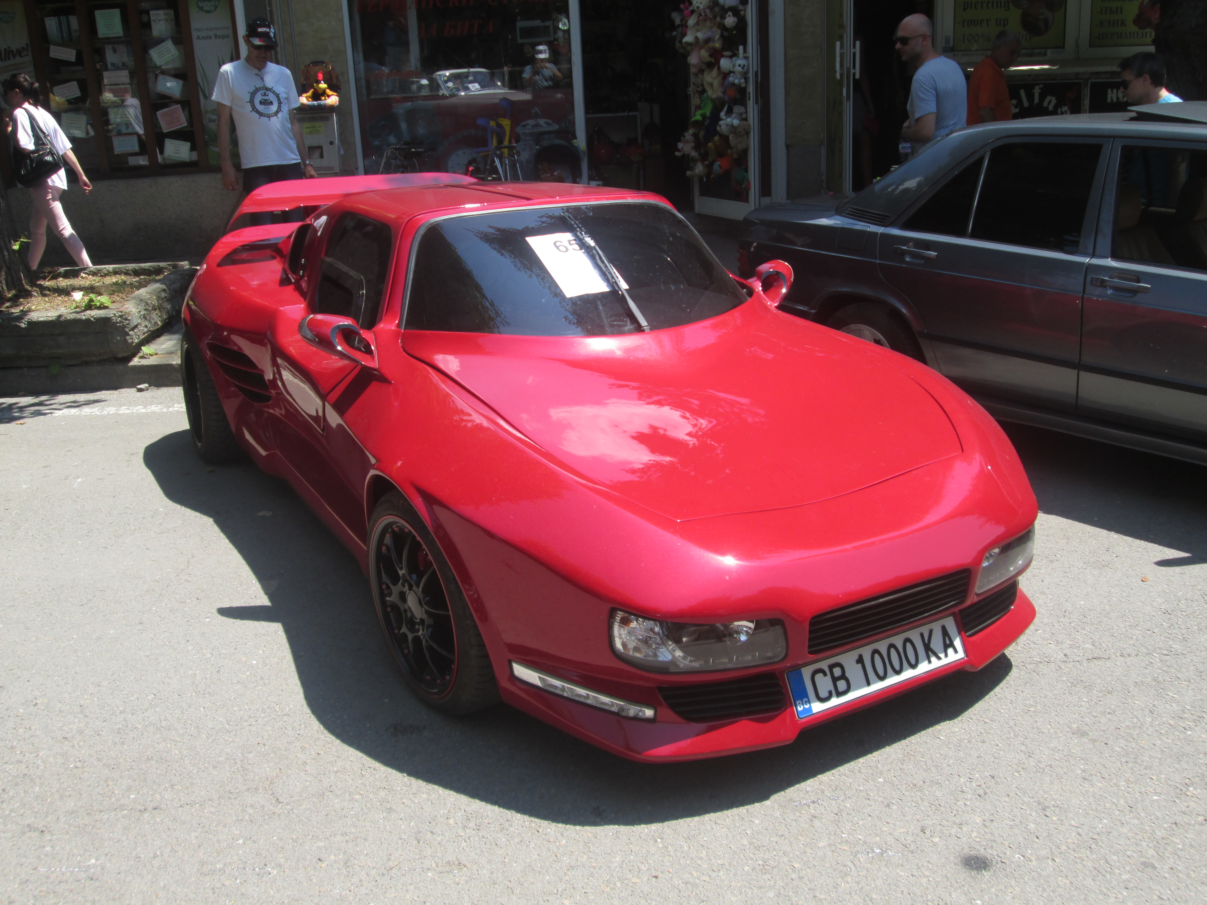 Sofia B (unknown model year) at the "Retro Automobiles Parade Ruschuk 2019", Ruse, Bulgaria. This was a limited production car, the only sports car in Bulgaria aswell, manufactured between 1985 and 2001, designed by the (late) engineer Velizar Andreyev.